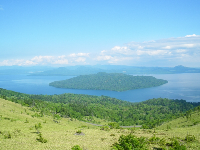 Kussharoko